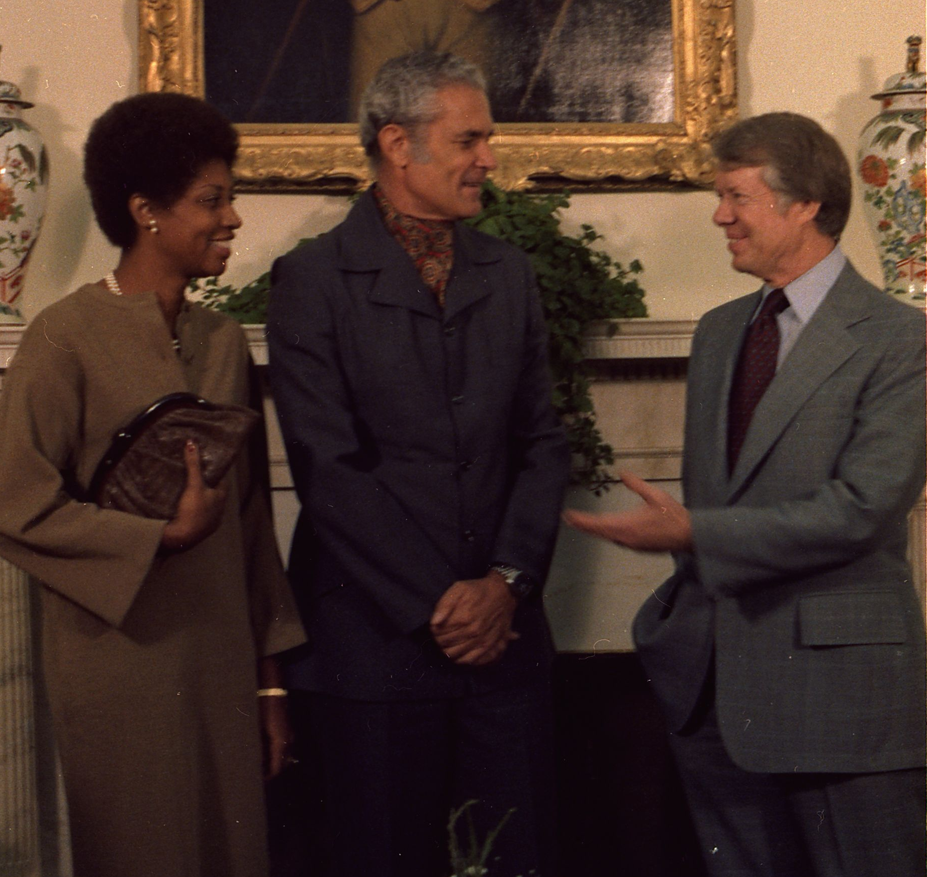 Mrs. Michael Manley, Prime Minister Michael Manley and Jimmy Carter during an Oval Office meeting., 12/16/1977. Converted from GIF to PNG.